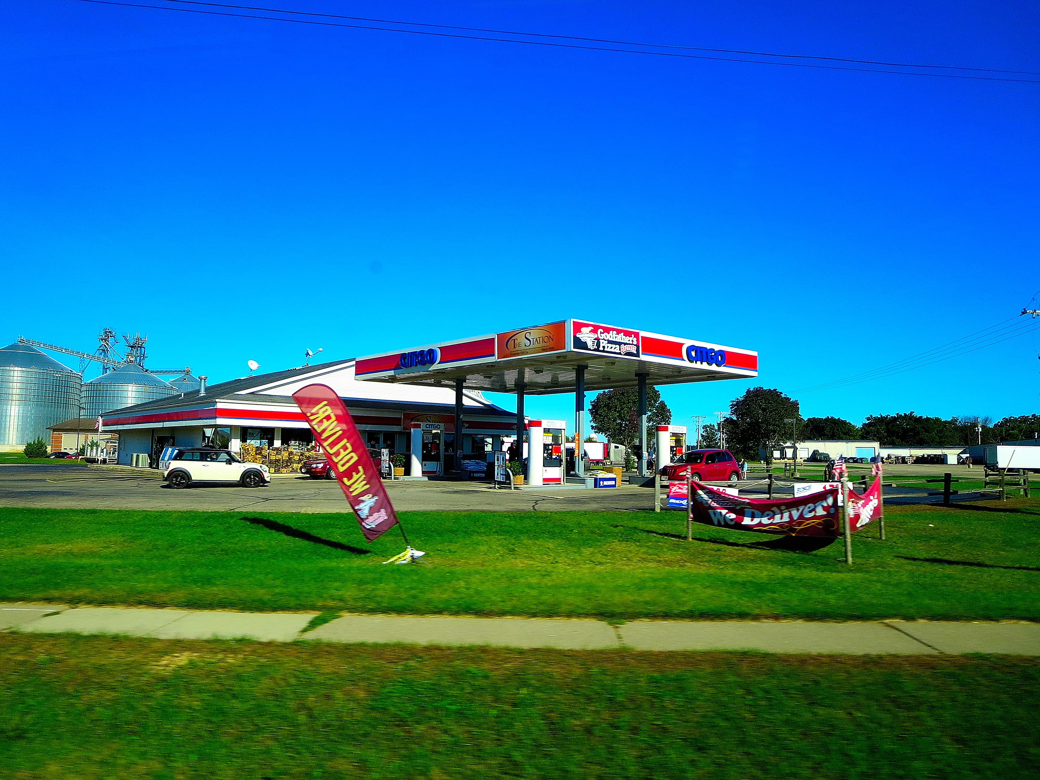 CITGO® & Godfather's Pizza